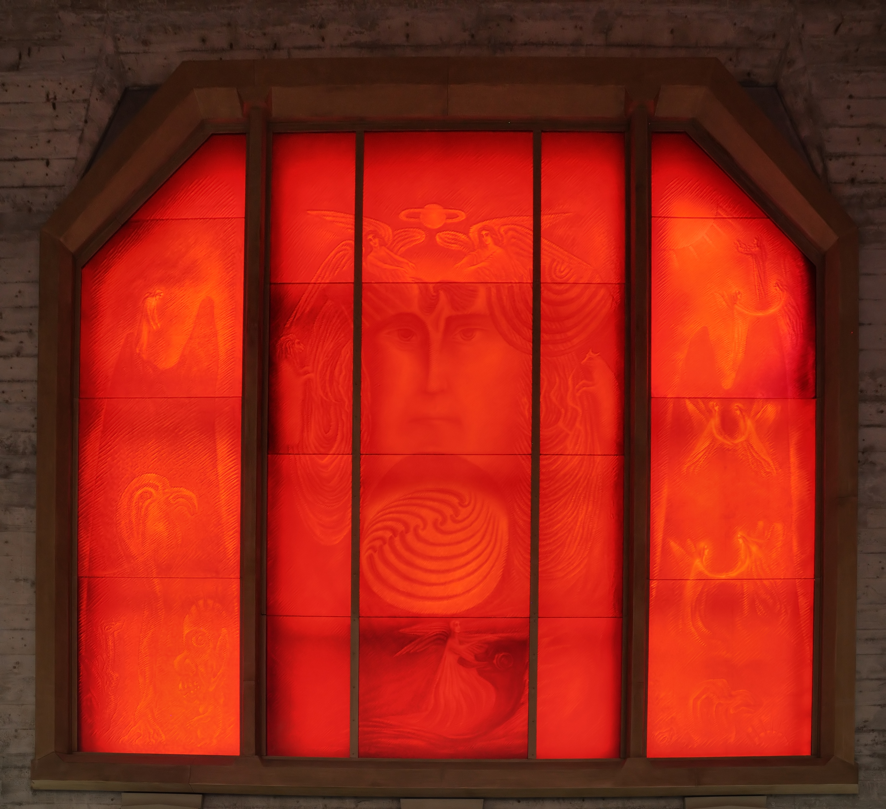 Goetheanum: Red window